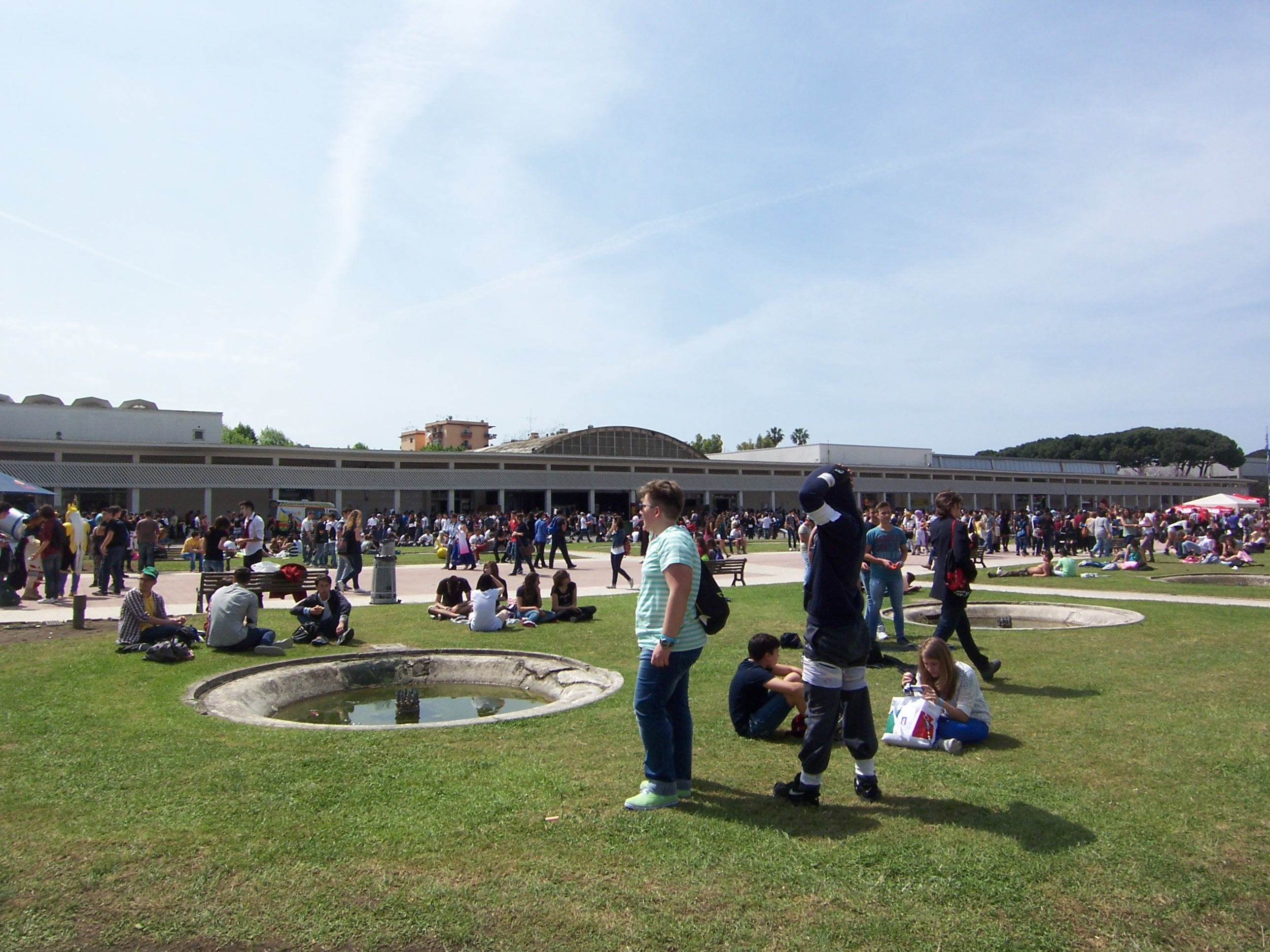 Napoli Comicon 2013 edition- annual comics convention in Naples, Italy